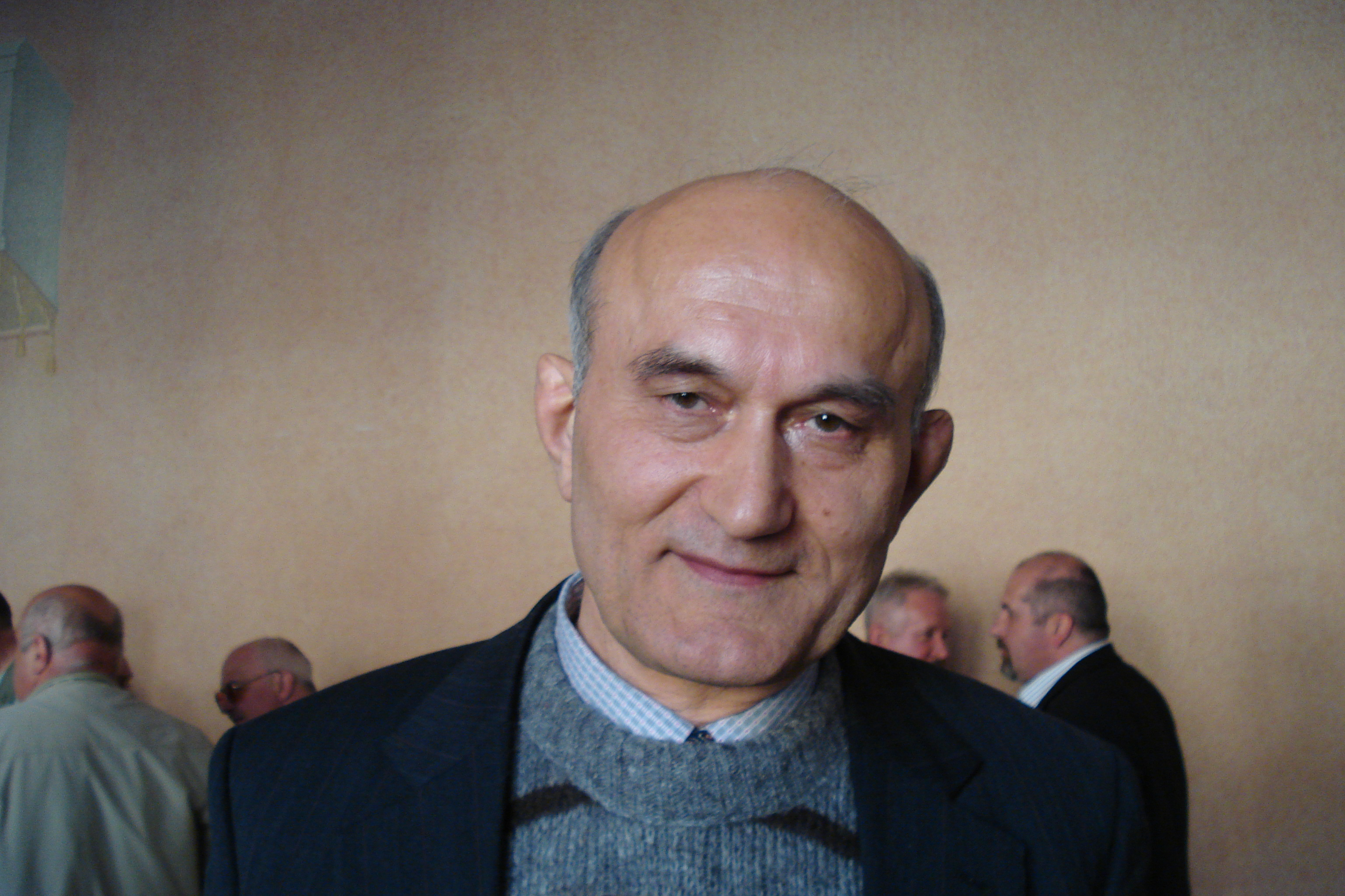 Zianon Pazniak, a famous Belarusian politician and public activist. Зянон Пазняк. Зенон Позняк.